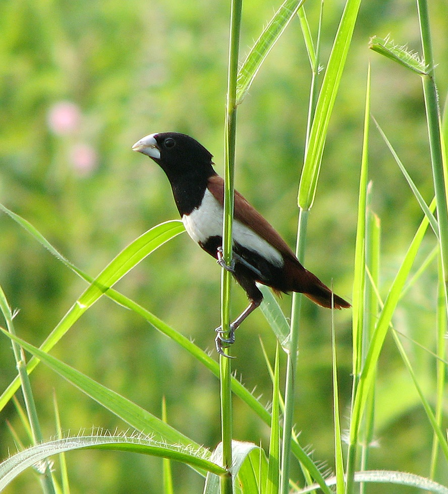 (Lonchura malacca). Mangalore, Karnataka (India).